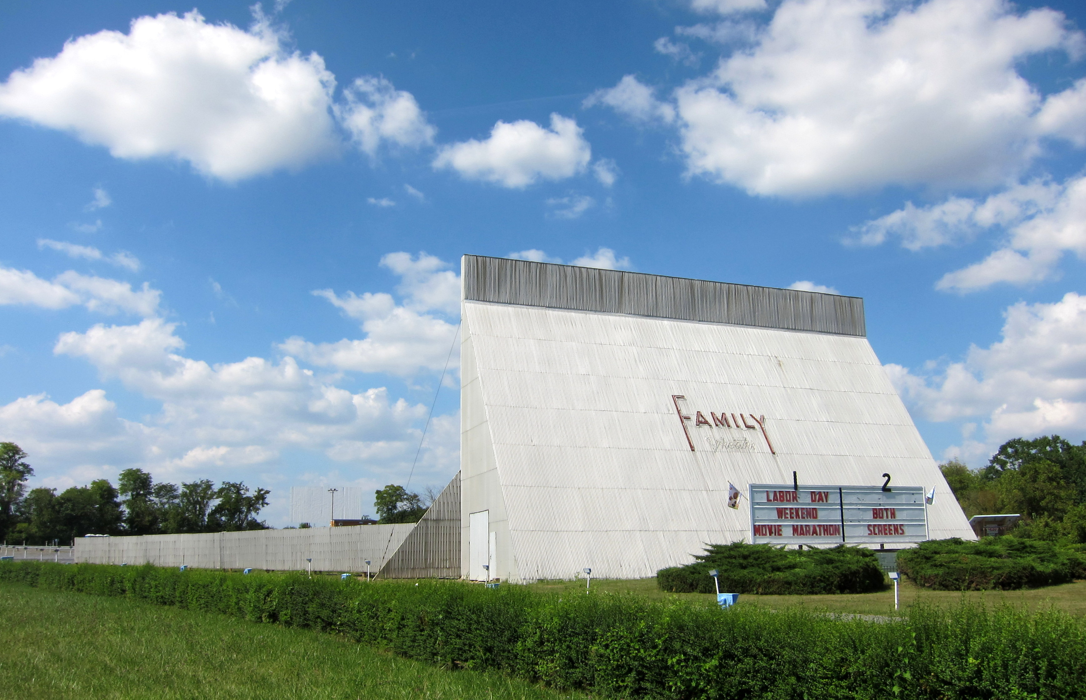 The Family Drive-In Theatre in Stephens City, Virginia.